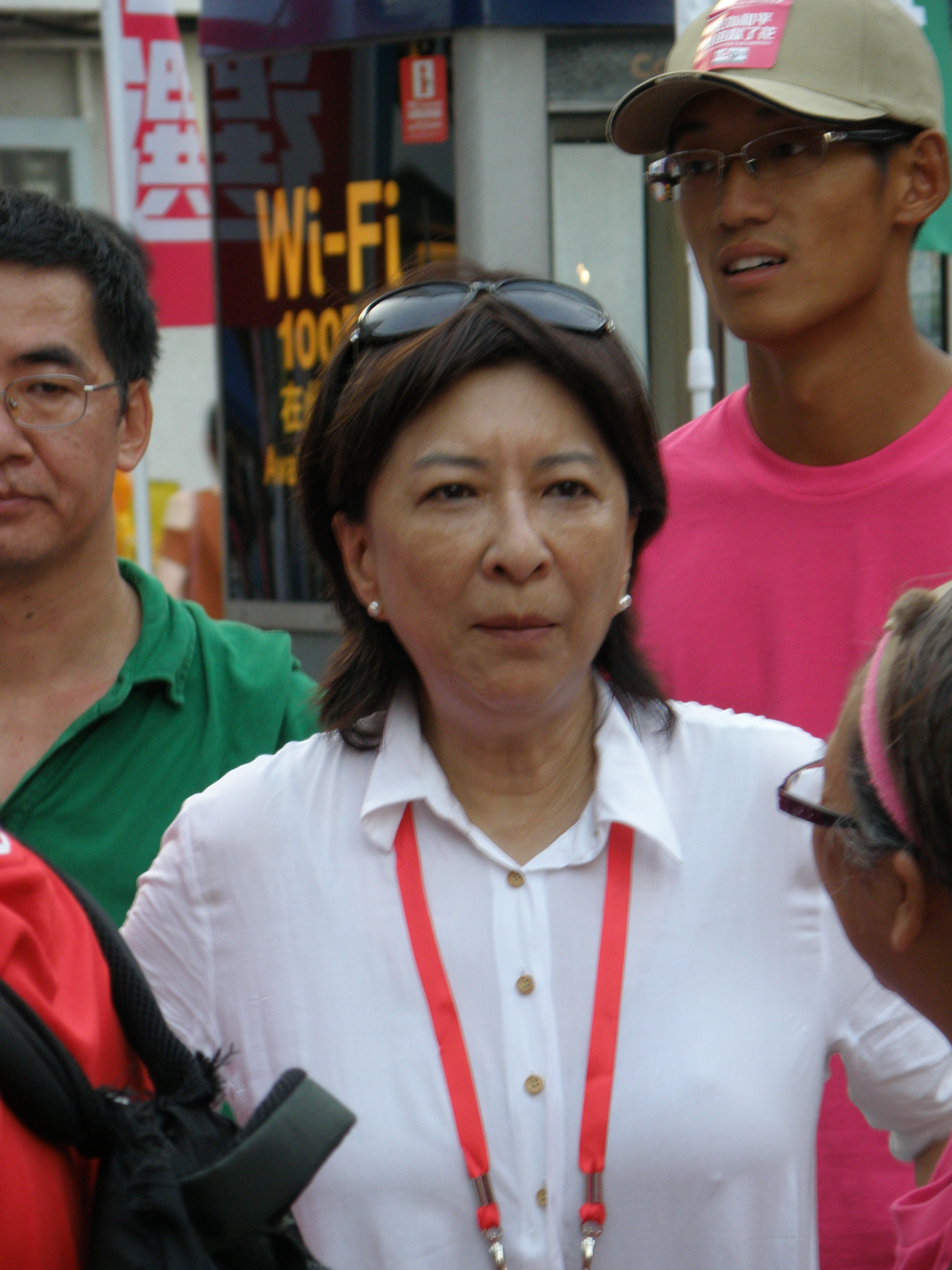 Ann Chiang Lai-wan, vice-chairmen of Democratic Alliance for the Betterment and Progress of Hong Kong.